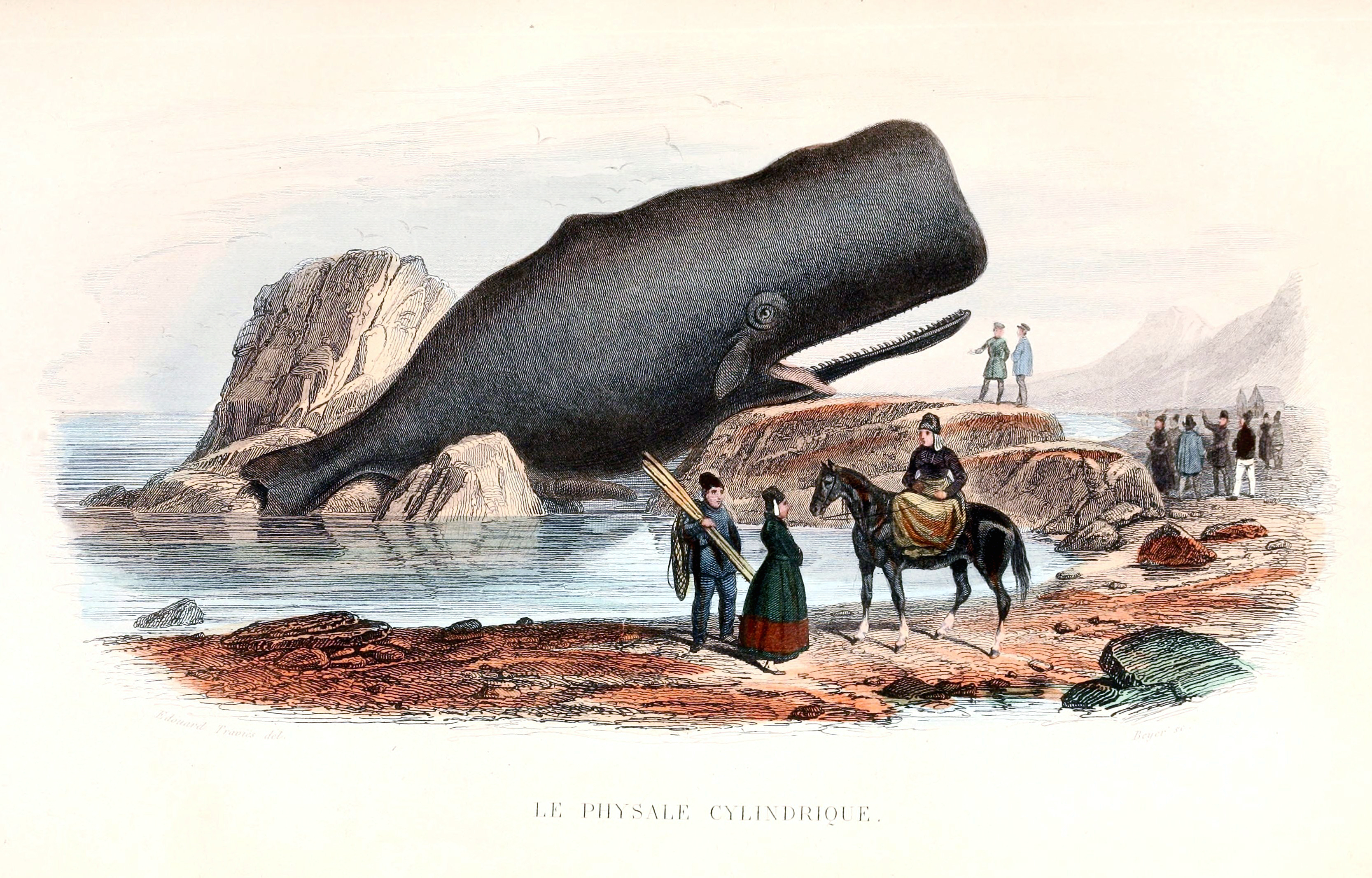 Sperm whale (Physeter macrocephalus)